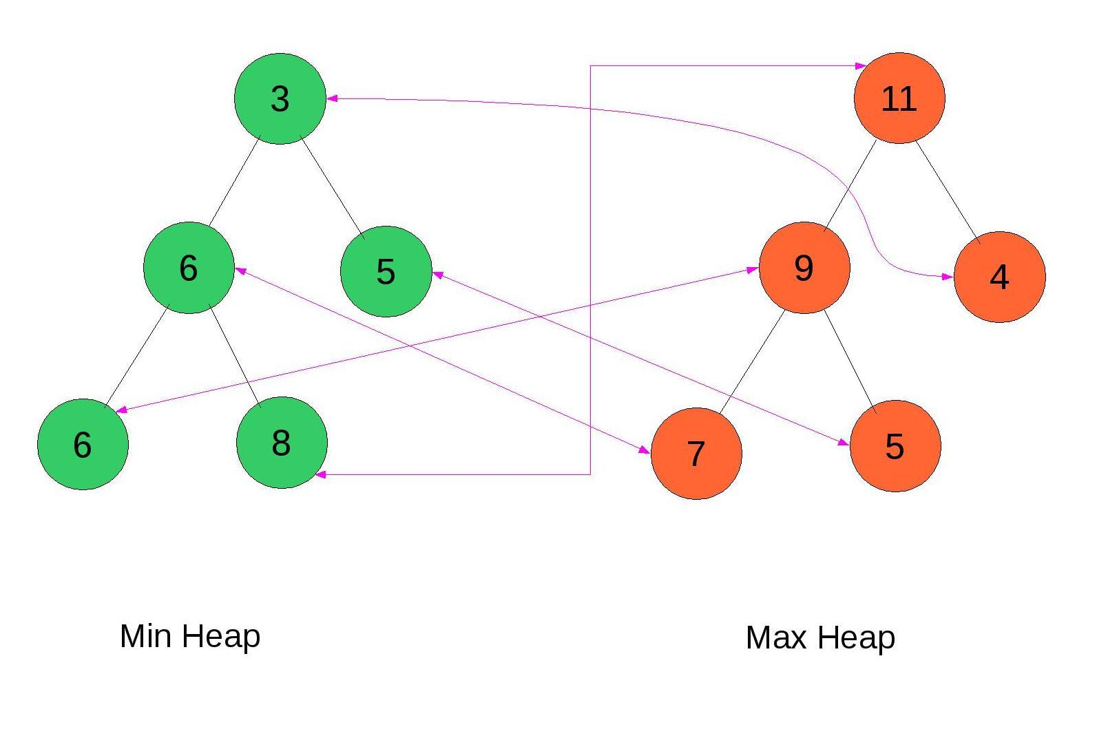 A method to implement Double ended priority queue(DEPQ)